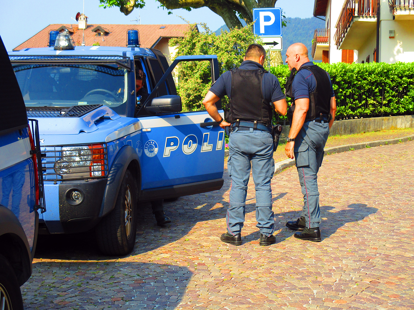 Police of Italy